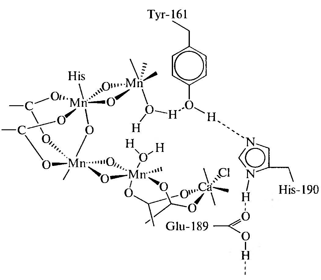 The layout of manganese cluster